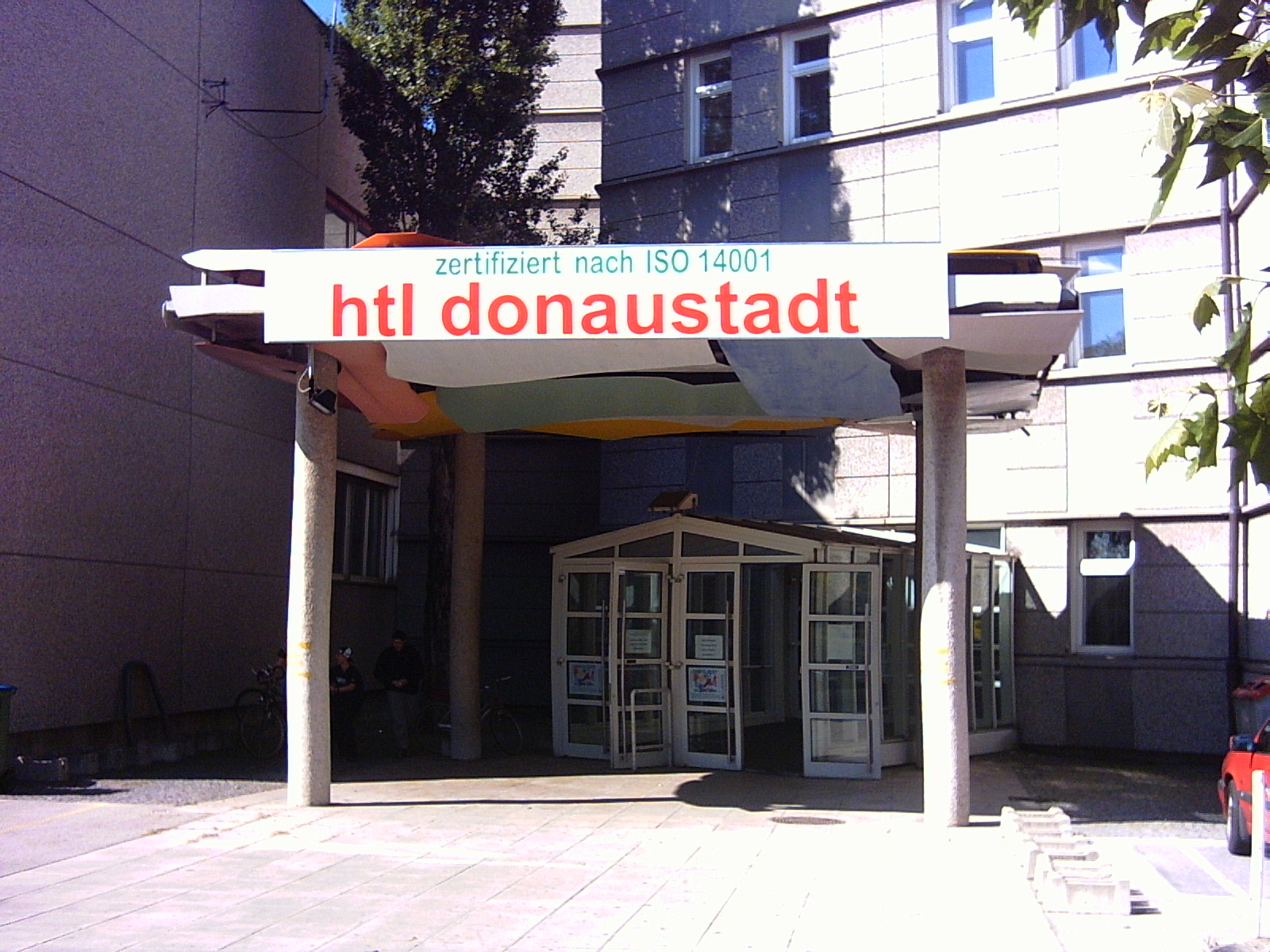 Main Entrance of HTL Donaustadt, a Higher Technical School in the 22nd Discrict of Vienna, Austria (For details read HTL Donaustadt (german)